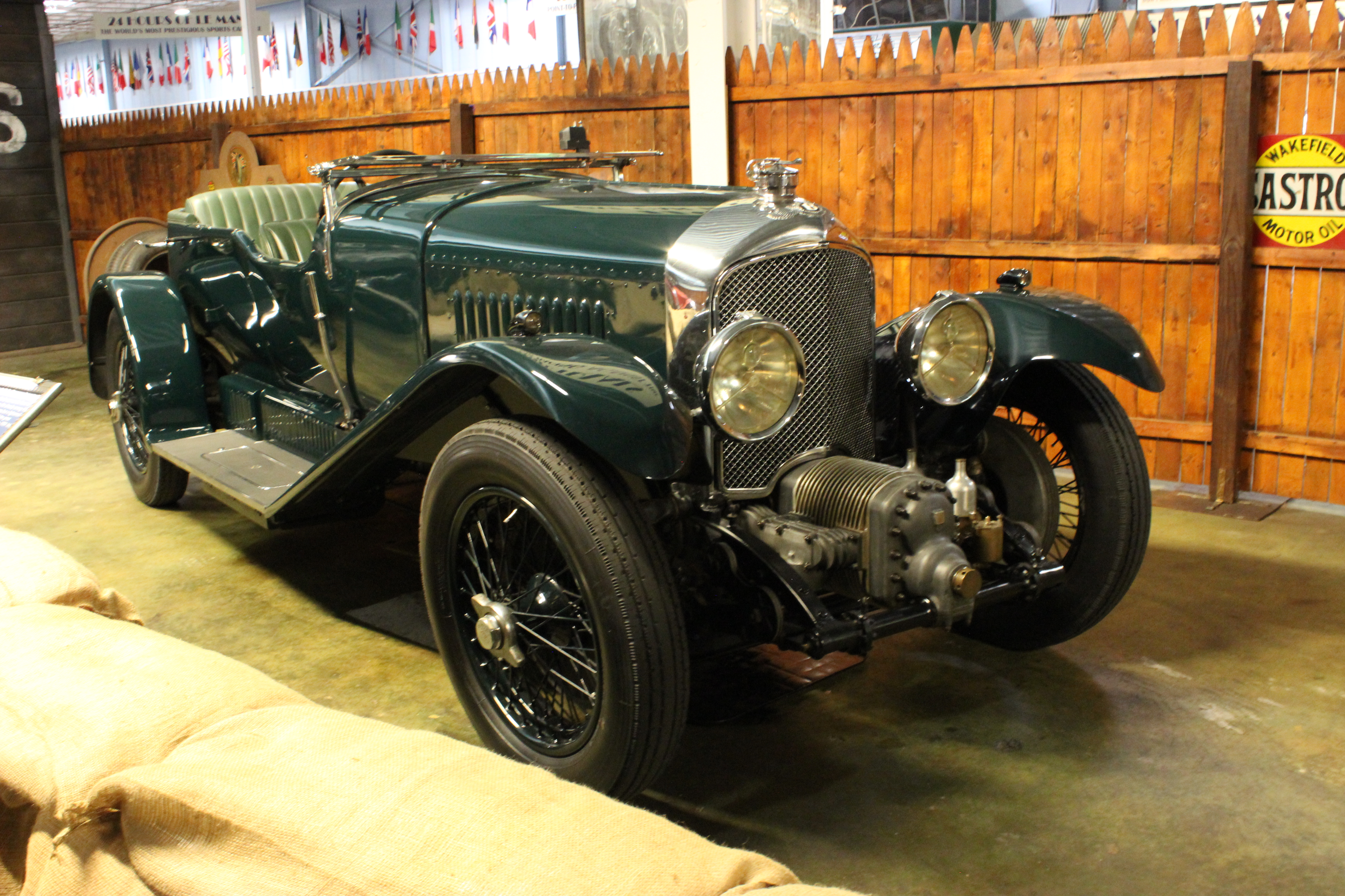 Bentley 4.5L Supercharged